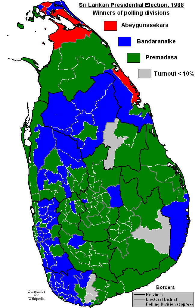 Map showing winners of polling divisions in the Sri Lankan presidential election of 1988.